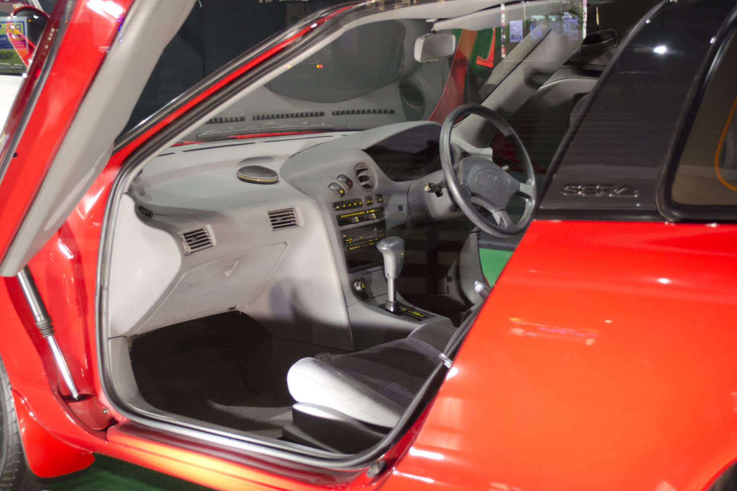 Toyota Sera